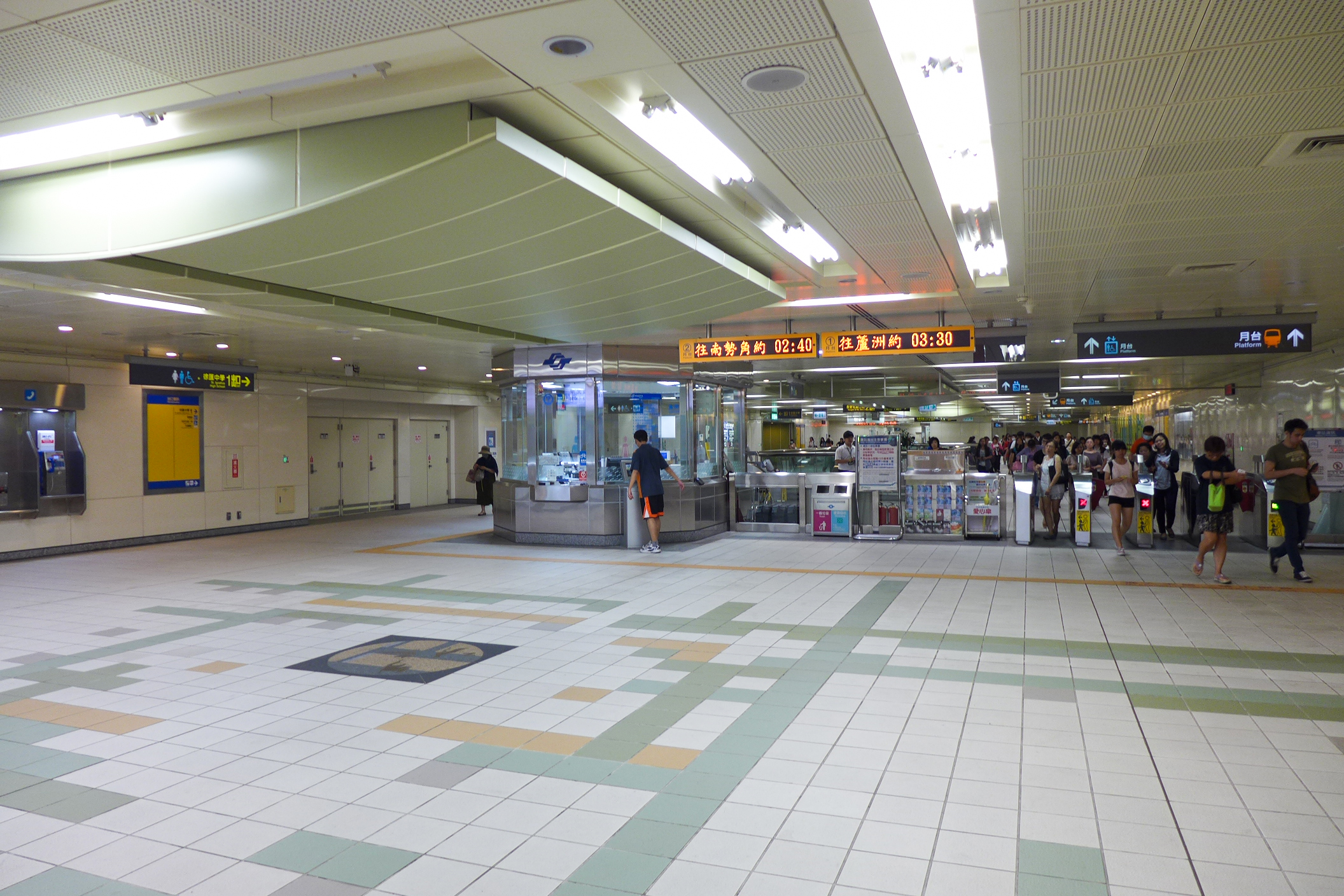 Saint Ignatius High School Station Concourse